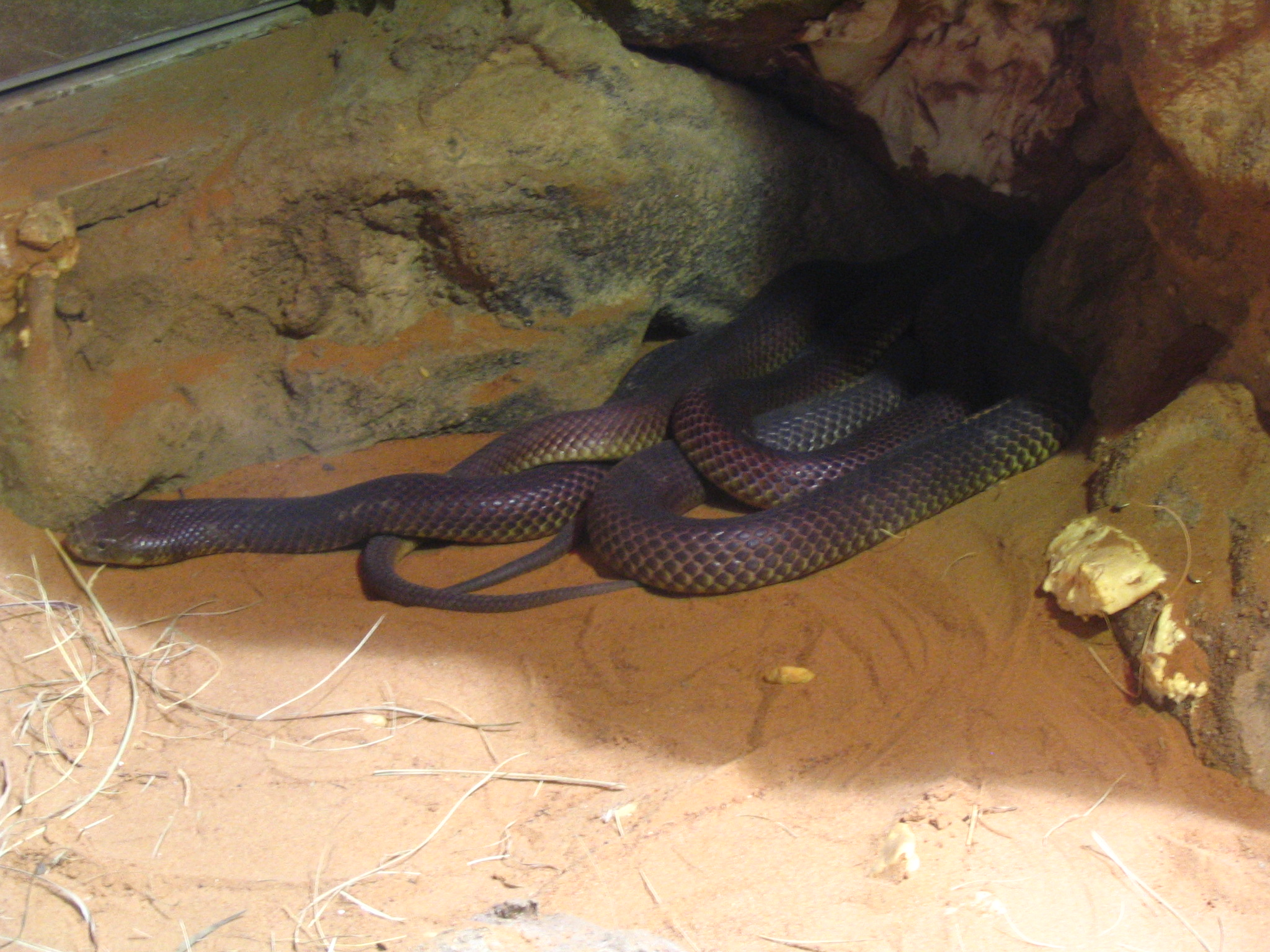 Pseudechis australis. CC0 waiver: To the extent possible under law, I waive all copyright and related or neighboring rights to this work.